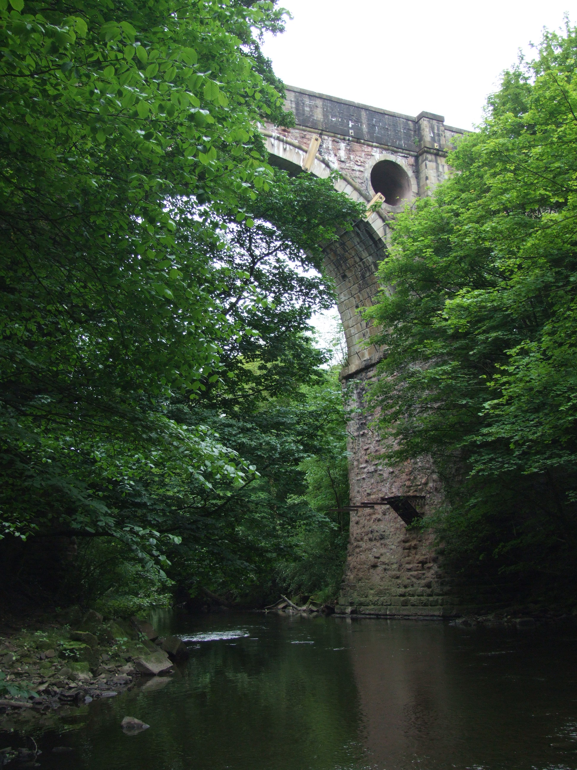 The Peak Forest Canal in Marple, Greater Manchester. After a level run from Dukinfield, the canal crosses the River Goyt. The aqueduct from below in the River Goyt.